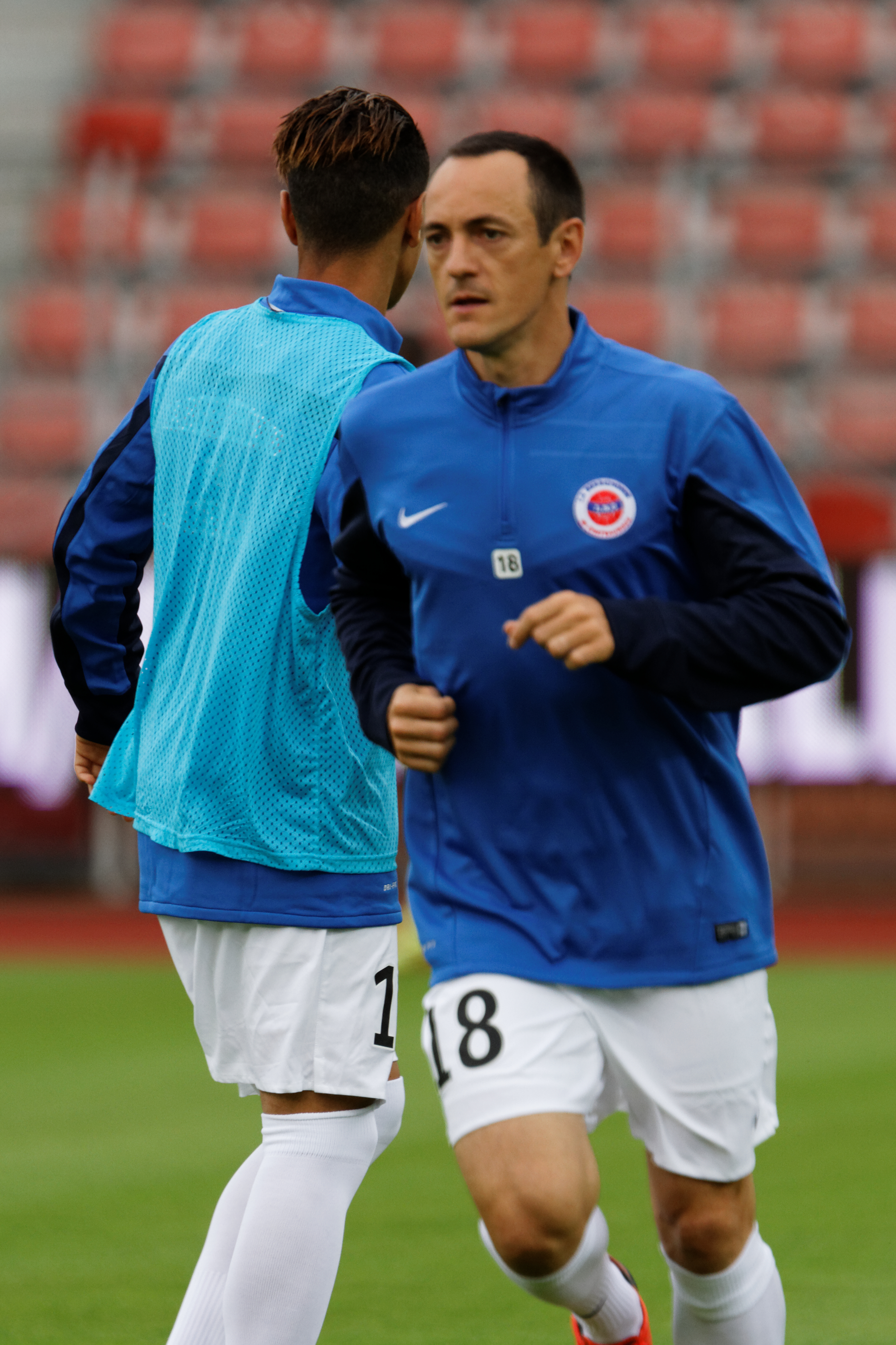 Créteil vs Châteauroux, 8th August 2014.